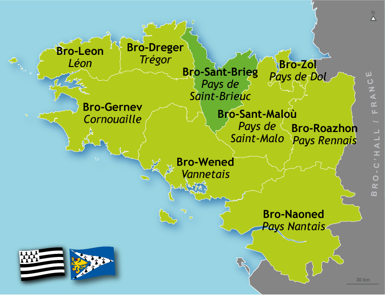 Position's map of Saint-Brieuc Country (Brittany)